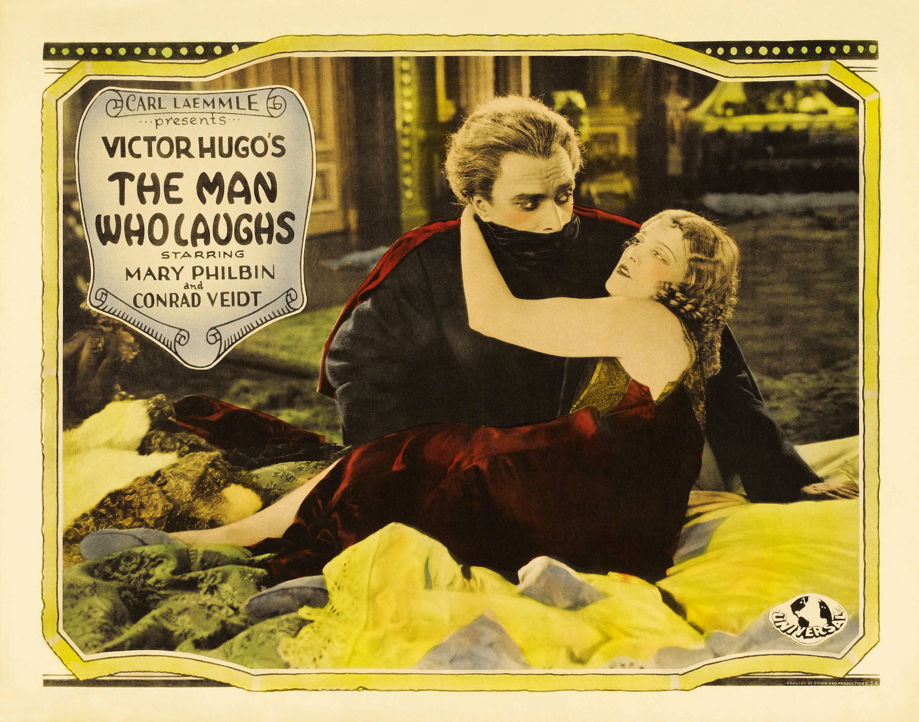 Poster for the 1928 film The Man Who Laughs.